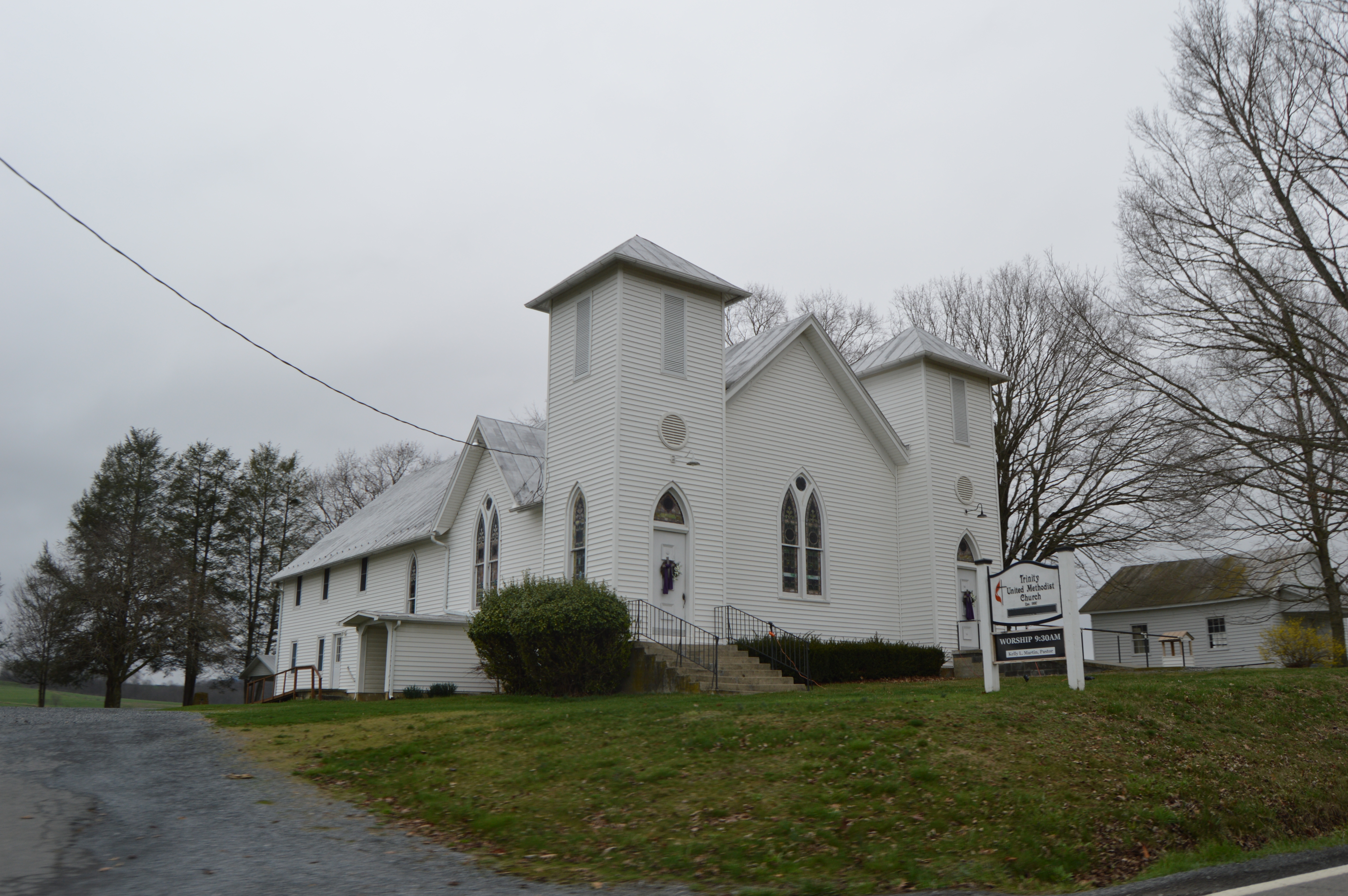 Front and southern side of Trinity United Methodist Church, located along U.S. Route 219/West Virginia Route 3 at Pickaway in Monroe County, West Virginia, United States. Built in 1887, it is part of the Pickaway Rural Historic District, a historic district that is listed on the National Register of Historic Places.